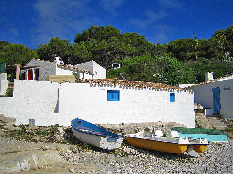 fishermans' shacks, coast of Xàbia, Marina Alta, Region of Valencia, Spain